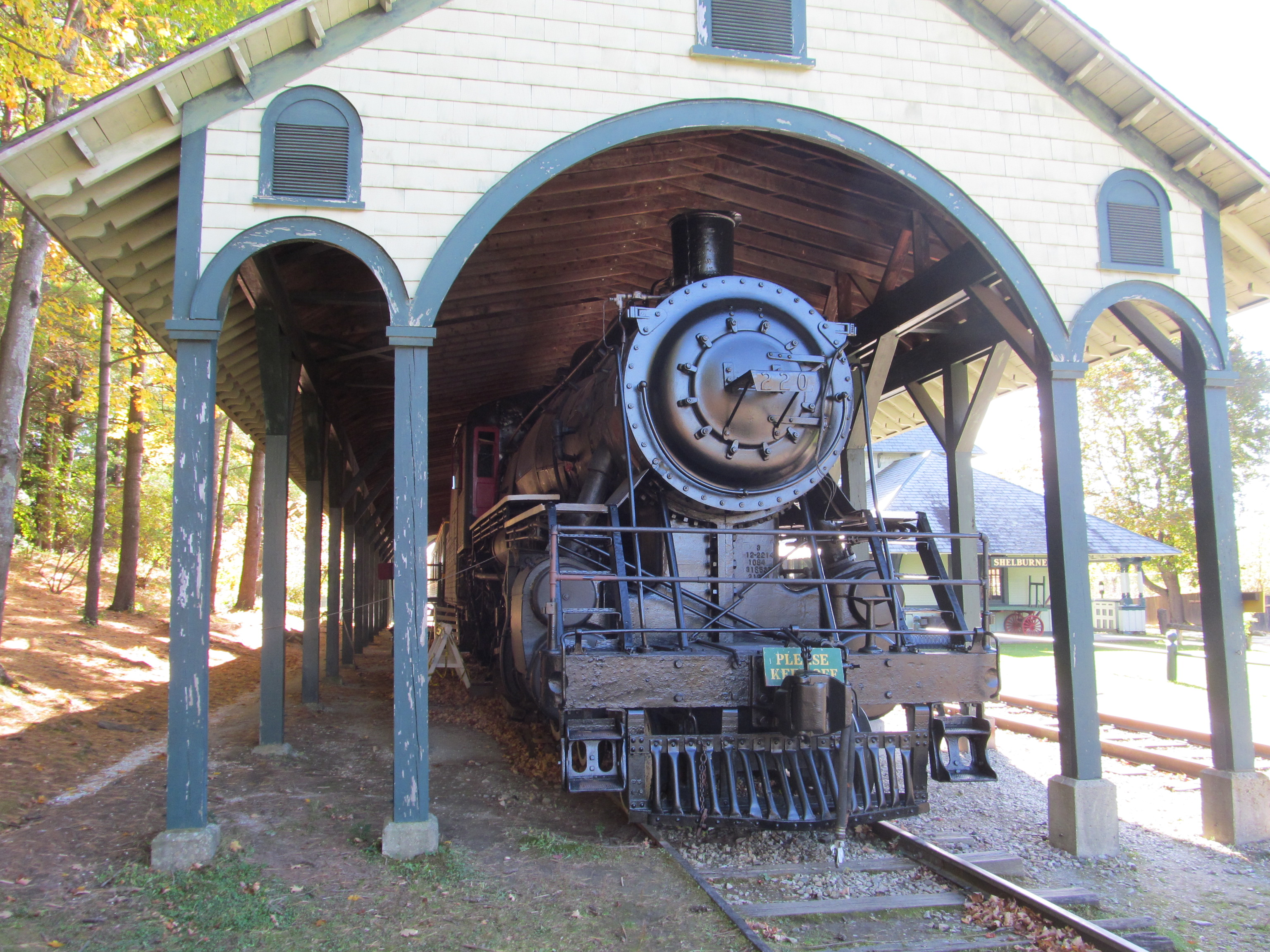 Central Vermont Railway locomotive No 220 (4-6-0, Alco-Schenectady 55018 of 1915), at Shelburne Museum, Shelburne Vermont